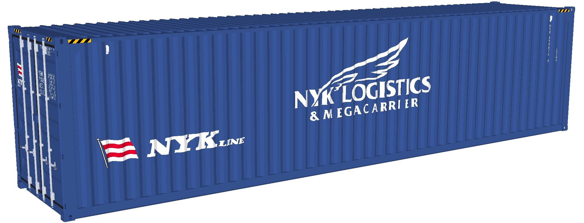 NYK container